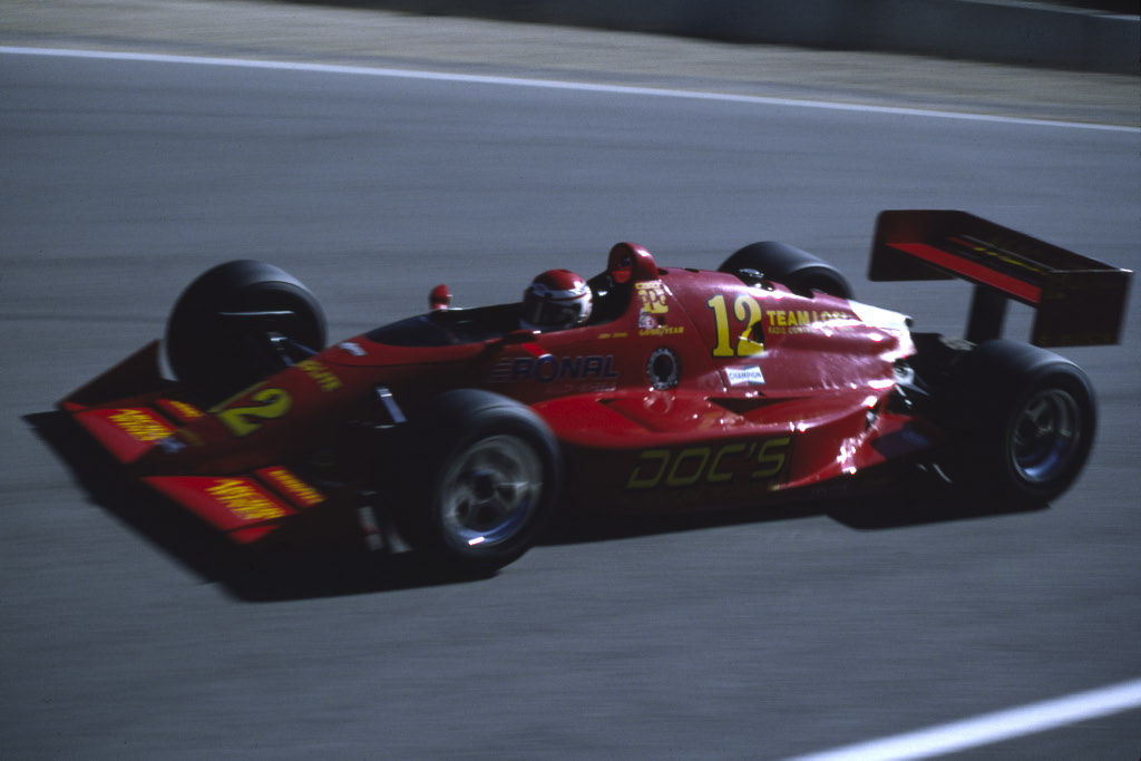 CART driver John Jones (driver) in a Lola Buick at Laguna Seca - Monterey, CA - October 1991. Scanned from Kodachrome 64 slide.Lola at Laguna.